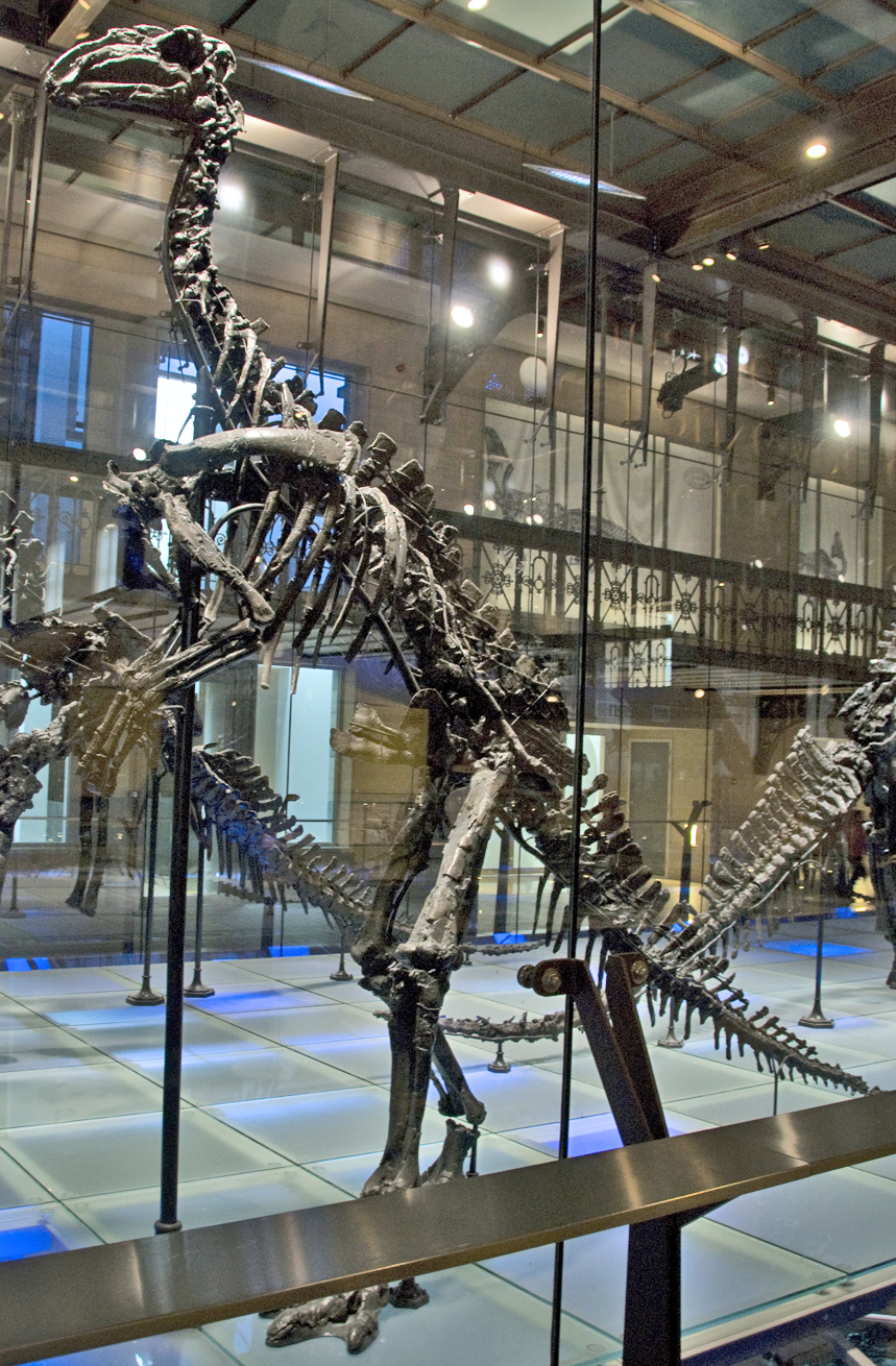 The holotype of Dollodon bampingi at Brussels